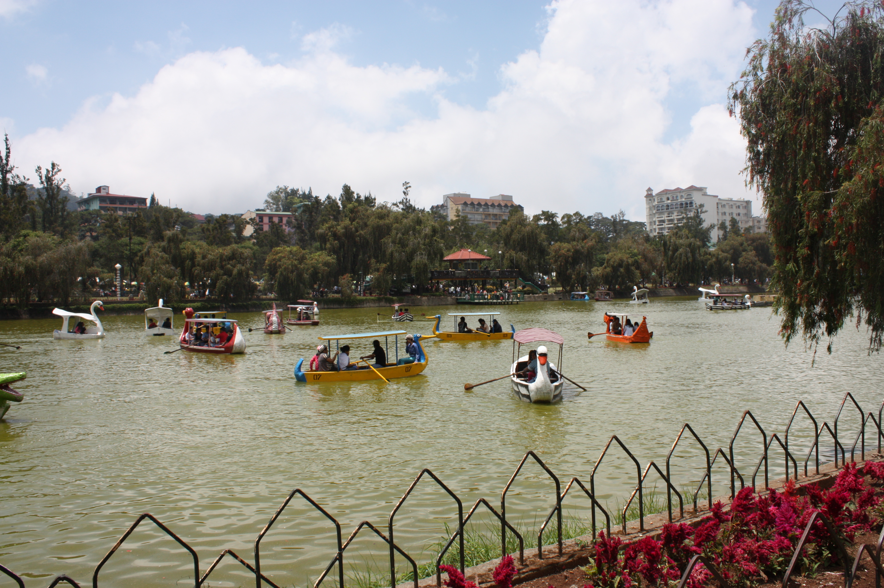 Man Made lake in Burnham Park Baguio where visitors do boating